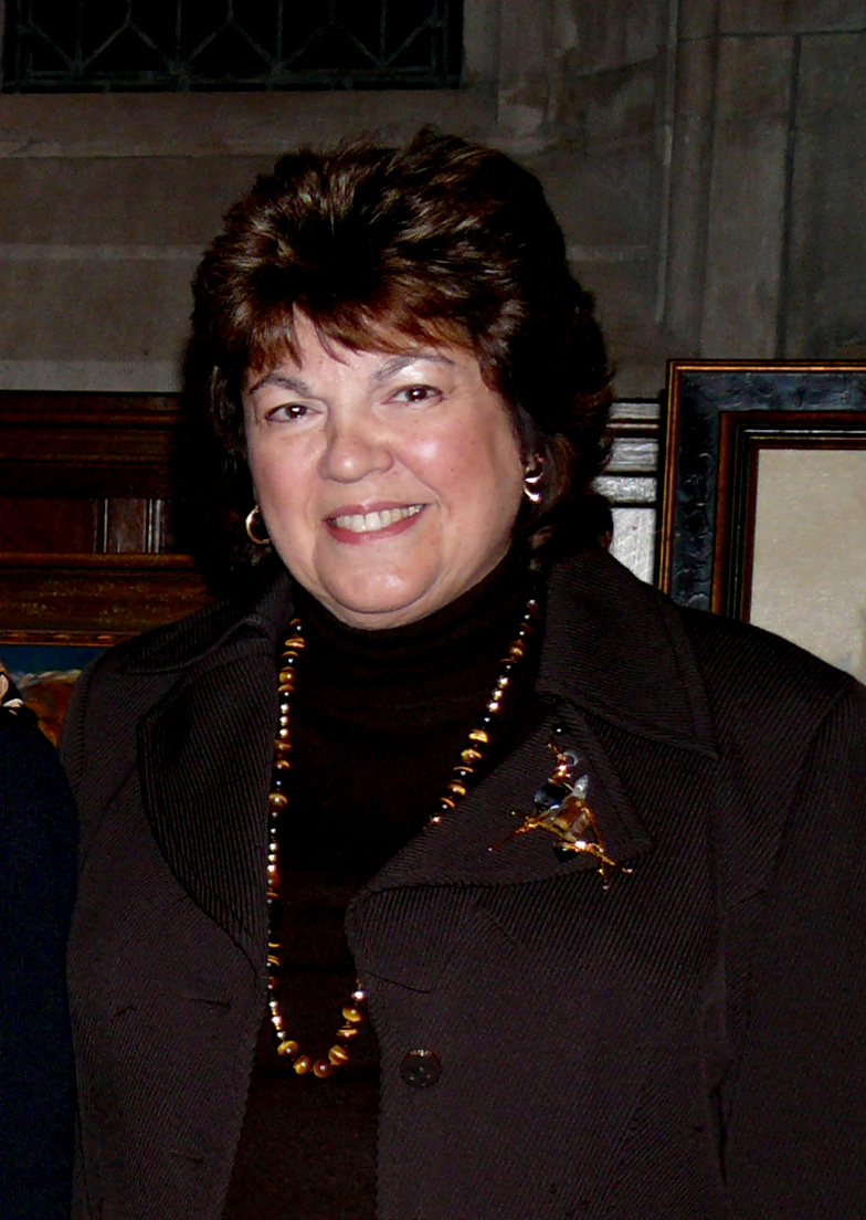 Judith Shapiro at the Women's eNews 2nd Annual Philadelphia Leadership Awards - Wednesday, October 20, 2010